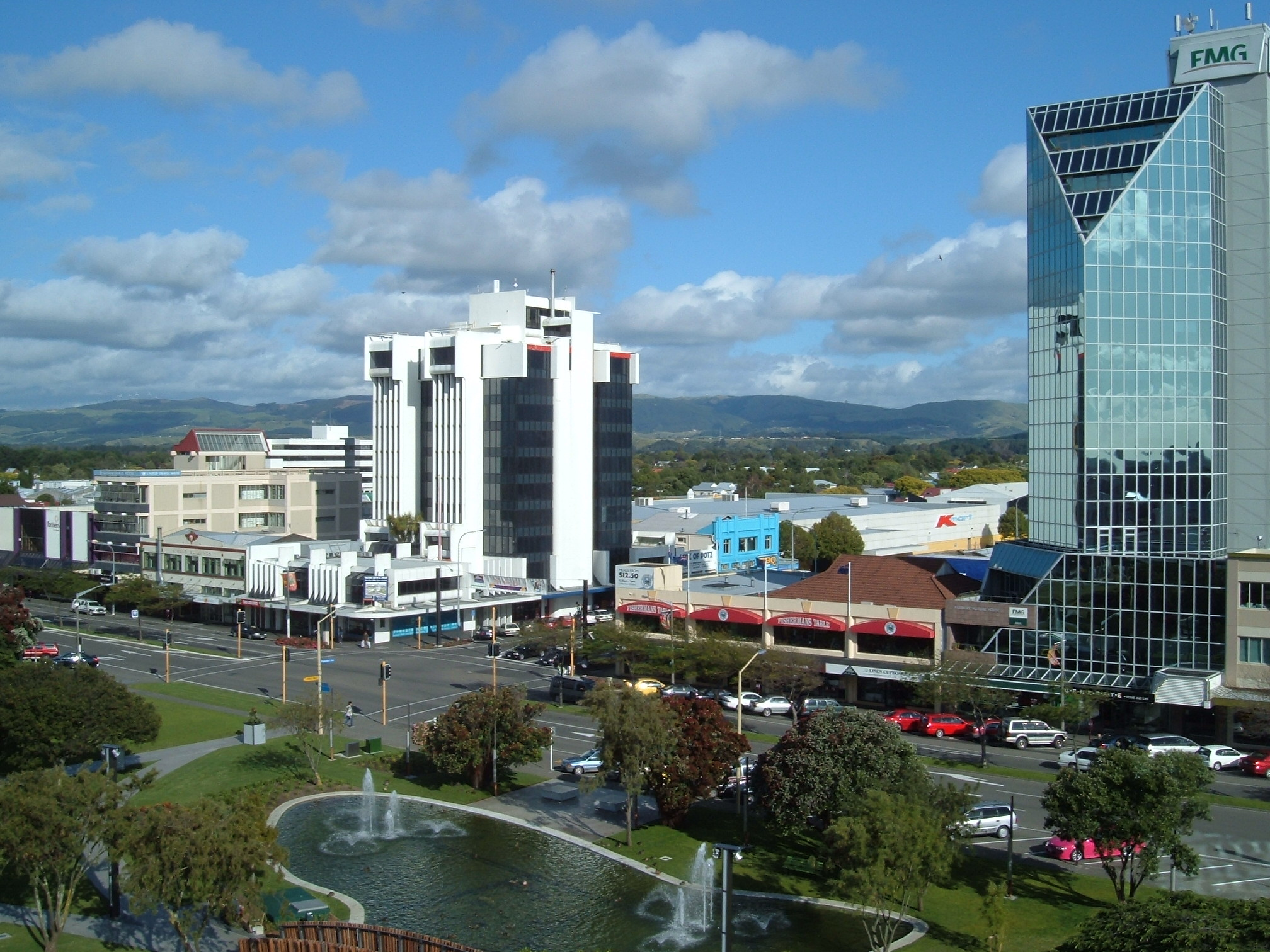 The Square, Palmerston North, New Zealand. Image taken by me with a Nokia 6234 2MP mobile phone, from the PN City Council building.